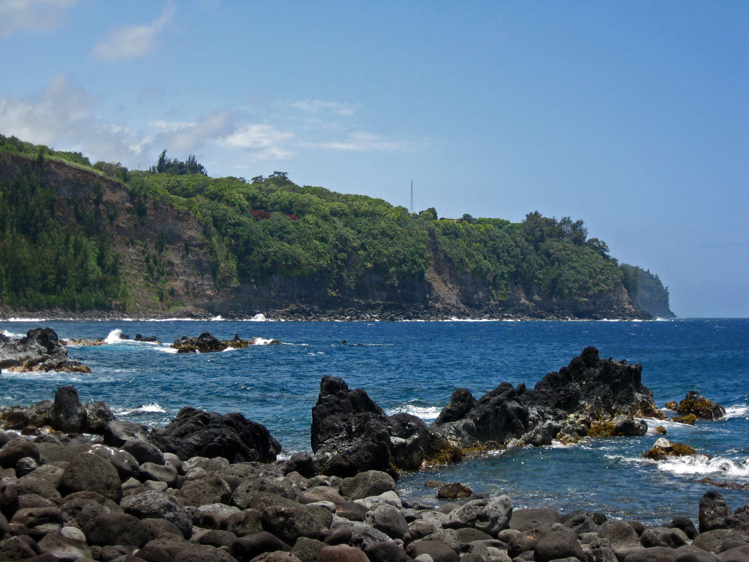 Rugged cliffs on the Hamakua coast of eastern Hawaii island, from Laupahoehoe point county park.